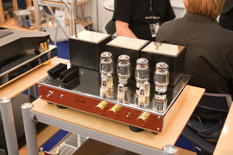 // Exhibits at HighEnd 2009 trade show, Munich, April 2009